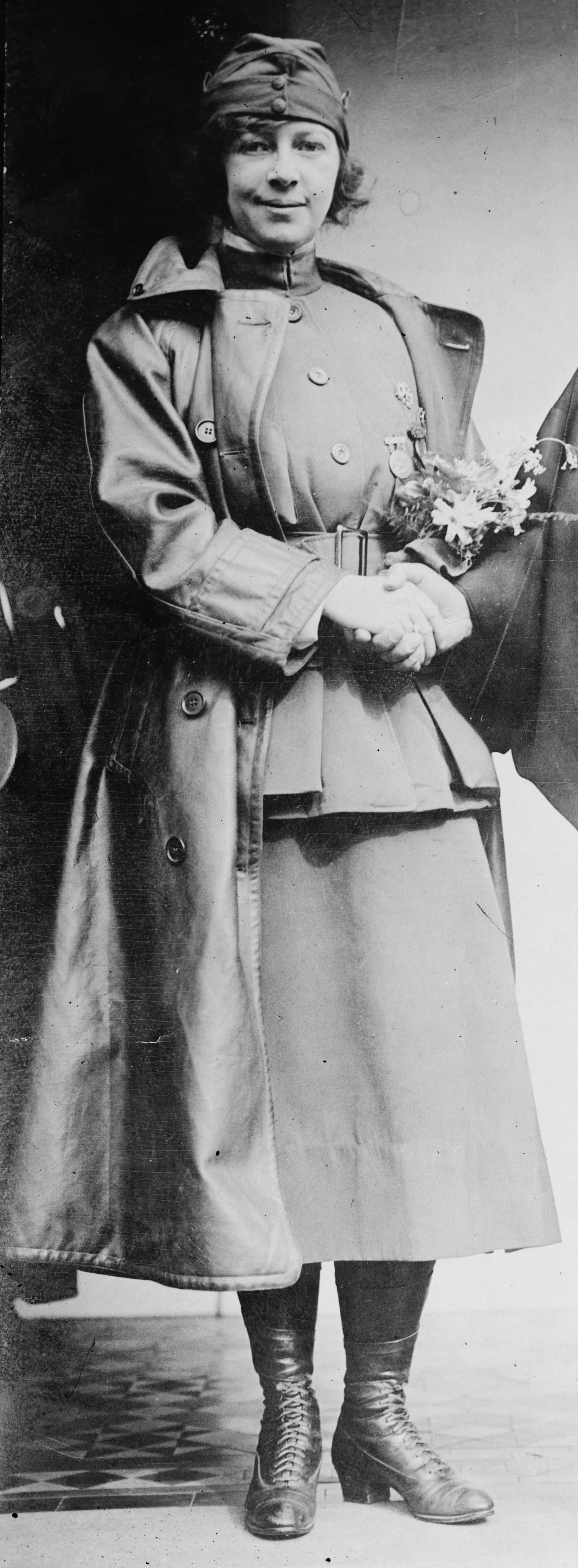 Title: Kath. Stinson, Marquis Okuma Abstract/medium: 1 negative : glass ; 5 x 7 in. or smaller.